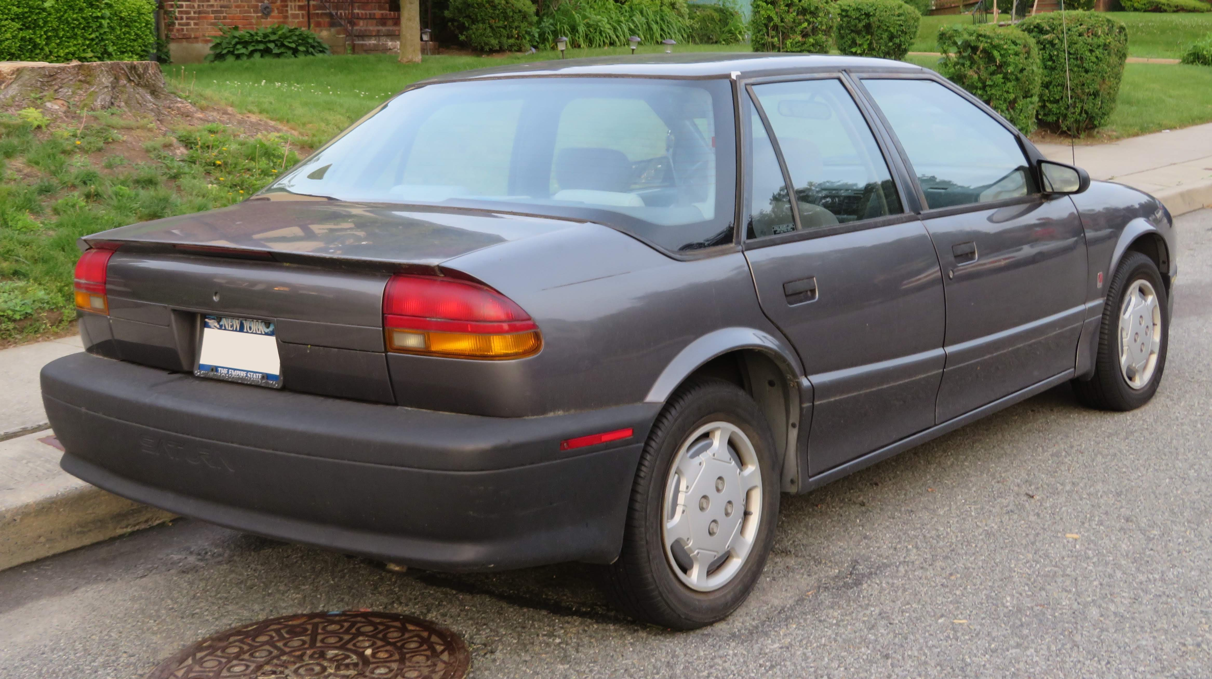 Photographed in Queens, New York